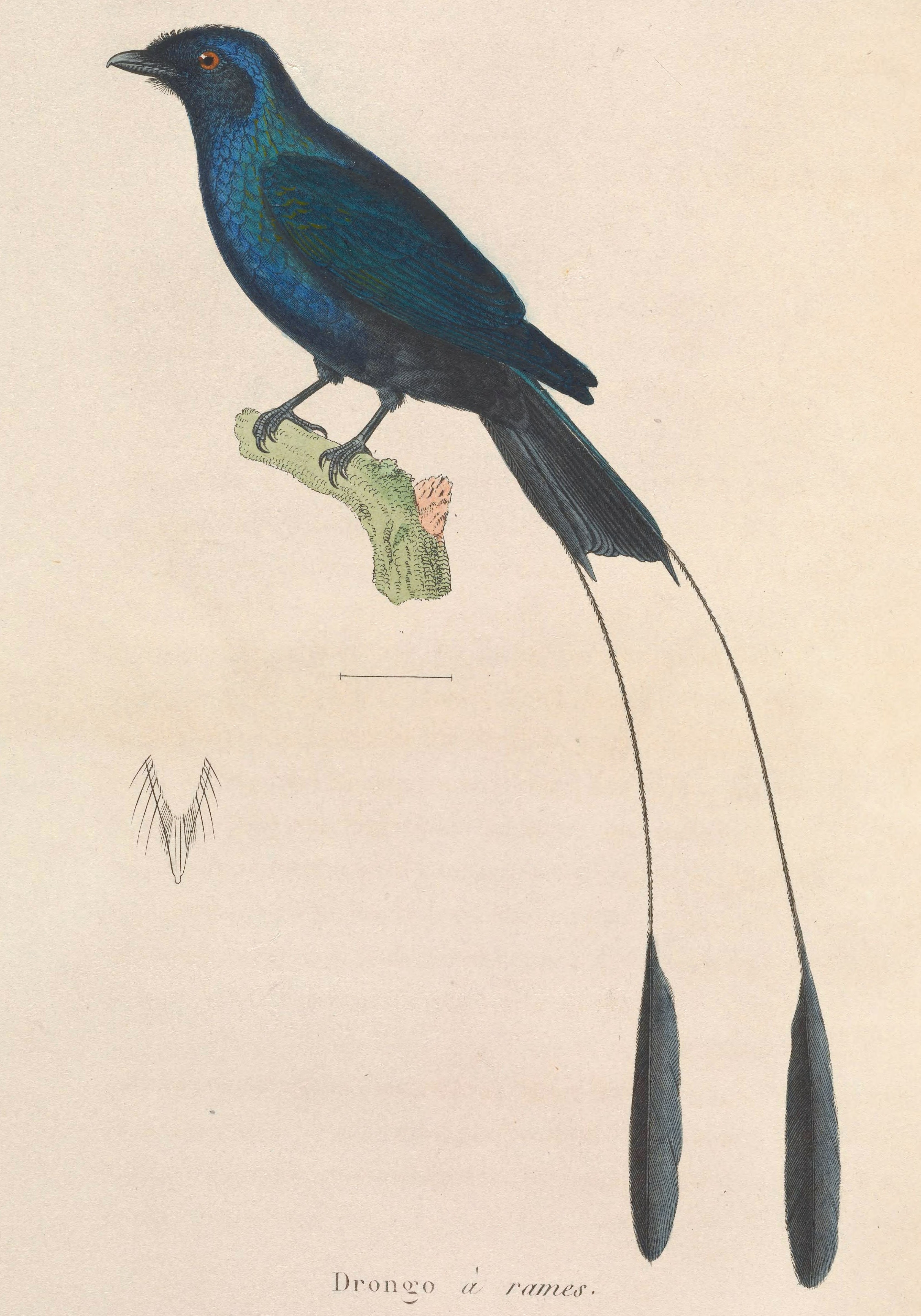 « Edolius remifer » = Dicrurus remifer (Lesser Racket-tailed Drongo) - male